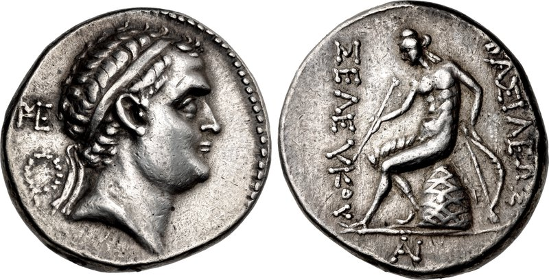 SELEUKID EMPIRE. Seleukos IV Philopator. 187-175 BC. AR Tetradrachm (28mm, 17.10 g, 12h). “Wreath” mint (Damaskos?). Laureate head right; to left, monogram above wreath / Apollo Delphios, testing arrow and holding grounded bow, seated left on omphalos; monogram in exergue. SC 1329.1a; Mørkholm, Monnayage 5 (A5a/R– [unlisted rev. die]); HGC 9, 580g. Good VF, toned. Rare. From the George Bernert Collection.